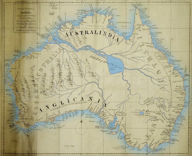 This map depicts Australia with a large inland sea reaching the ocean as the Macquarie and Castlereagh Rivers; this was an extrapolation by Maslen at the time, because no Europeans had ventured in the heart of Australia then.